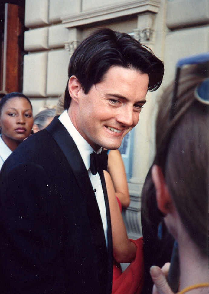 Photo taken at the 43rd Emmy Awards 8/25/91- Permission granted to copy, publish or post but please credit "photo by Alan Light" if you can